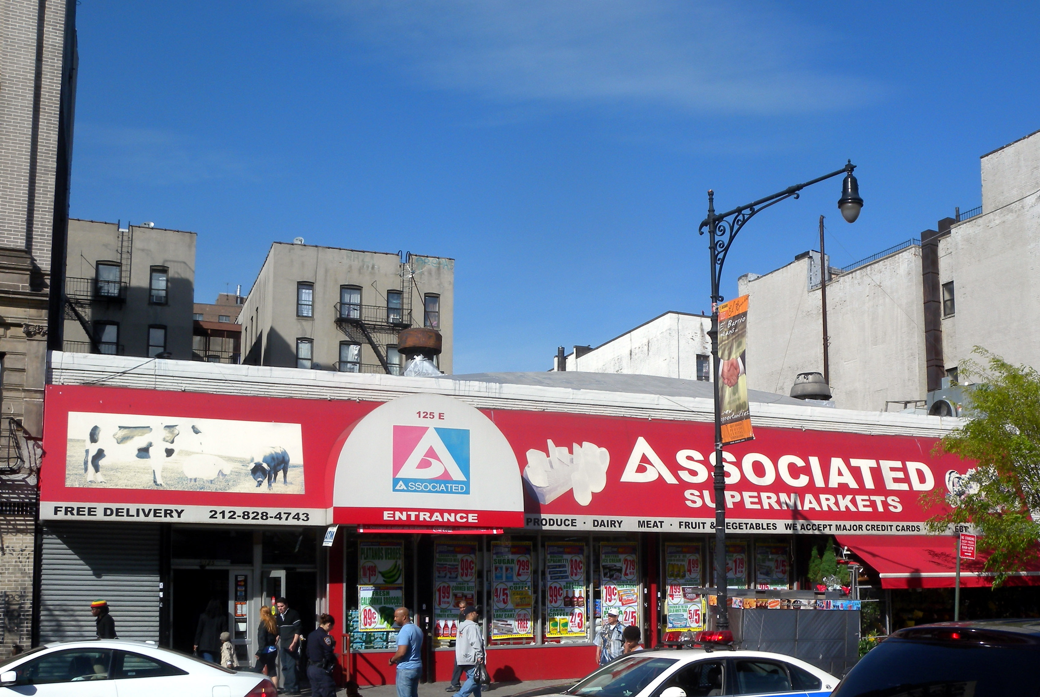 Looking northeast across 116th St at Associated Supermarket on a sunny afternoon.